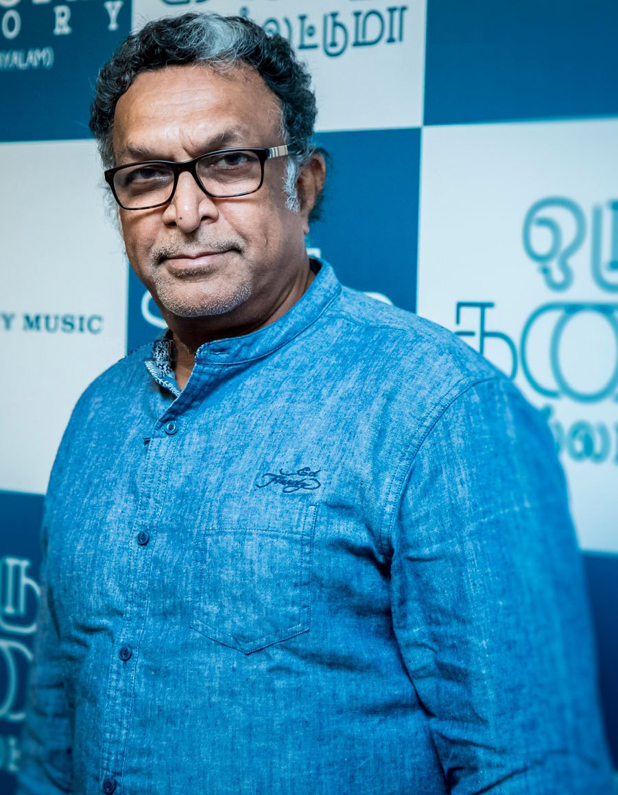 Nassar at Oru Kadhai Sollattumaa Audio Launch